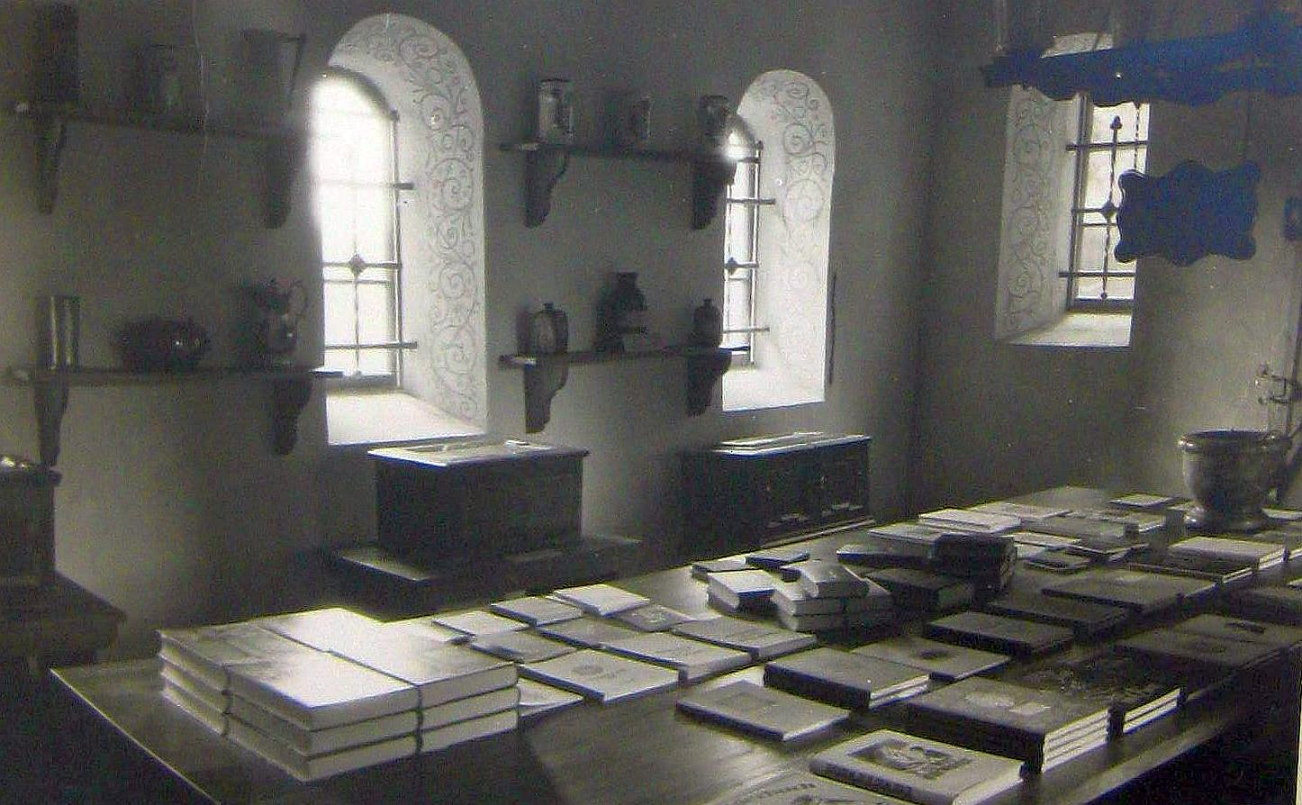 Kröpelin: Opening of the local museum on 4 October 1953